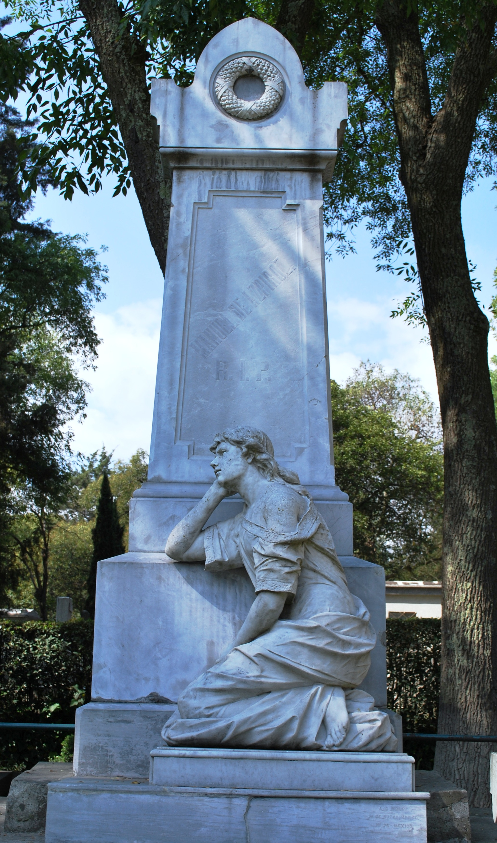 Tomb of Manuel de Azpiroz in the Panteón Civil de Dolores in Mexico City